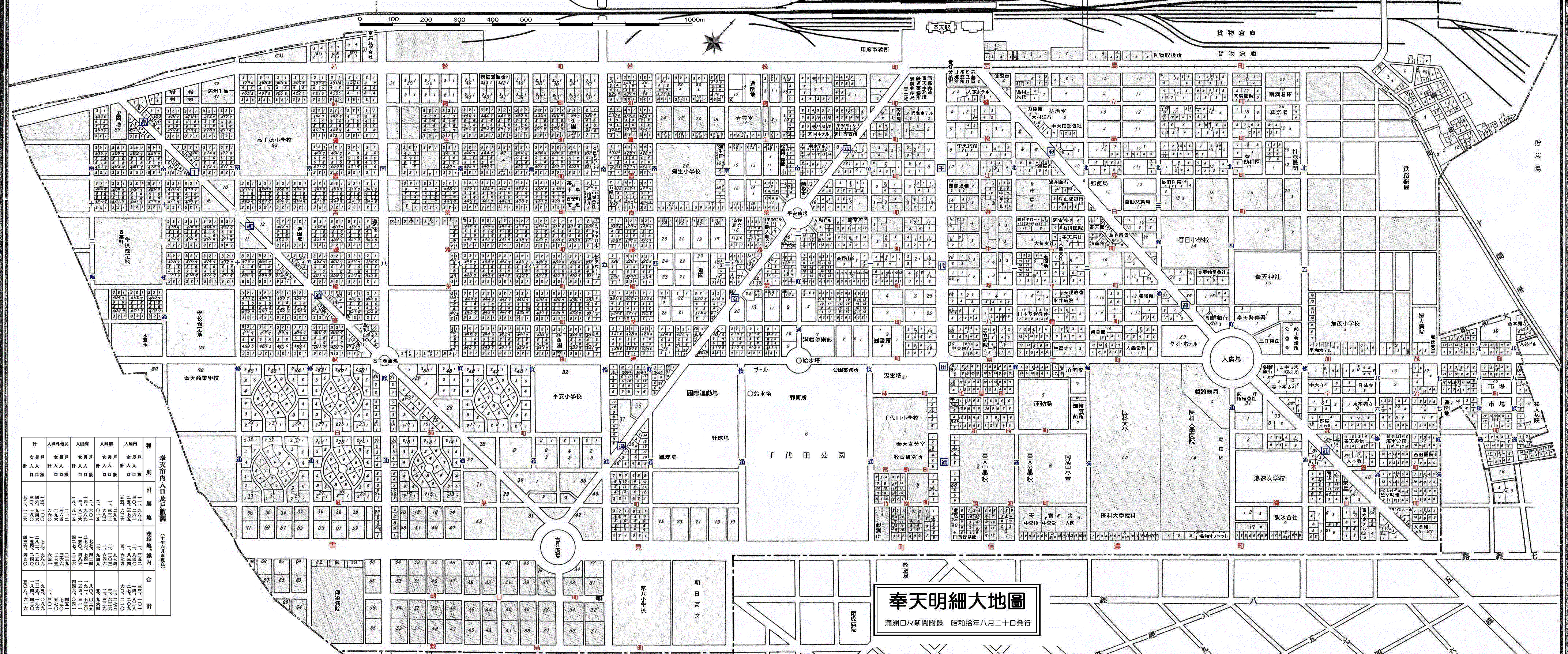 Mukden Map in 1935